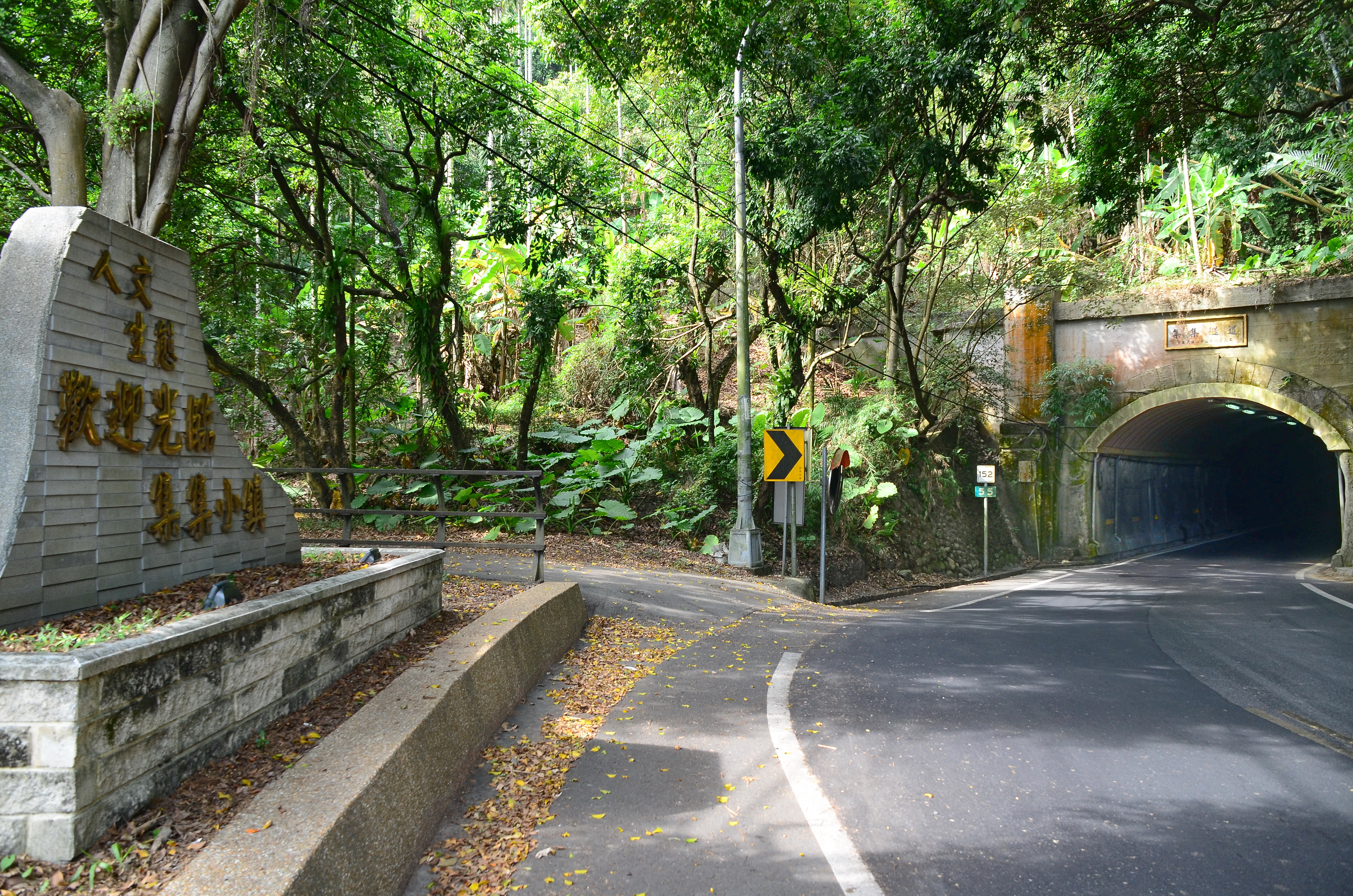 Ji Ji Tunnel, County Road 152, Nantou, Taiwan.